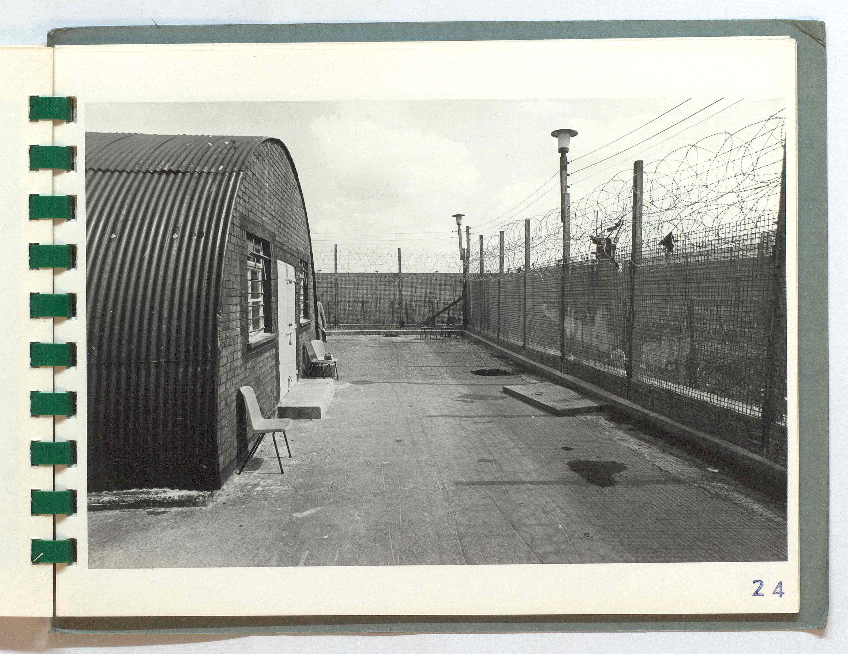 PRONI Ref: RUC/12/59/1 Digital Image Ref: RUC_12_59_1~024~A Photograph seven of nine dating from 6th November 1974, when 33 prisoners attempted to escape from HM Prison Maze through a tunnel which they had dug. IRA member Hugh Coney was shot dead by a sentry, 29 other prisoners were captured within a few yards of the prison, and the remaining three were back in custody within 24 hours. This image is taken from an album from the Royal Ulster Constabulary archive collection which contains 16 images of this escape incident.